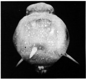 Operation Hardtack/Lea. Rapatronic picture.